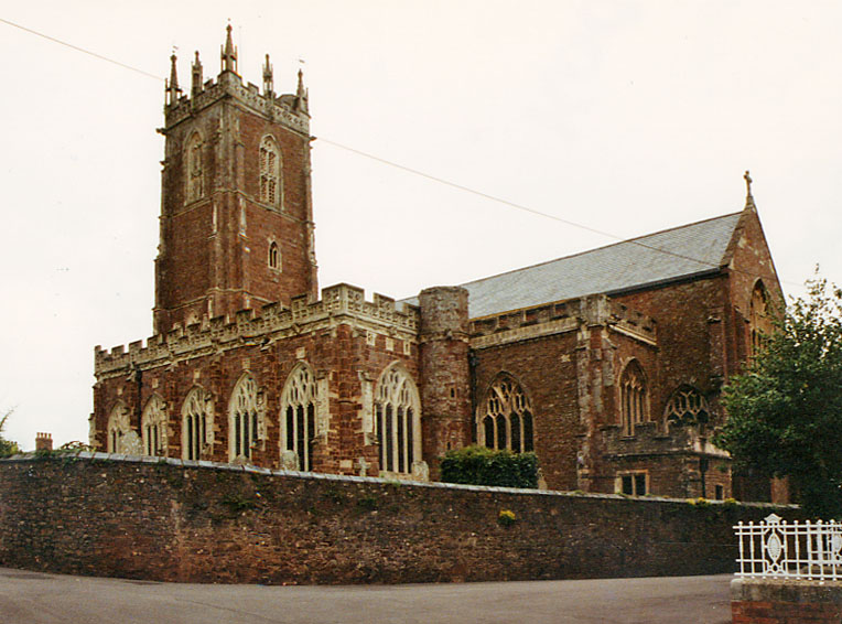 St Andrew, Cullompton, Devon